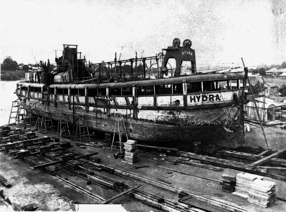 Dredge ship Hydra on Petrie Slip while lengthening dredge. (From description supplied with photograph.)